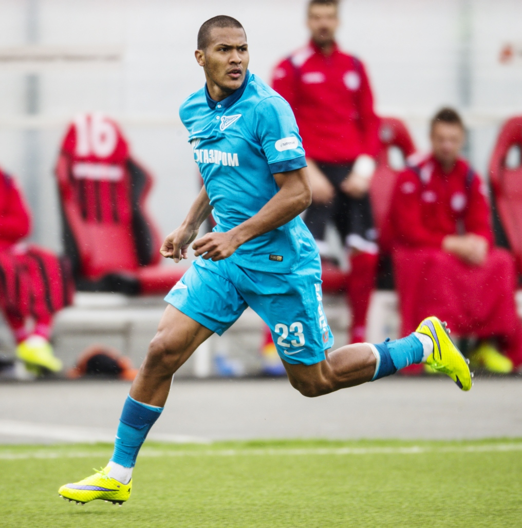 José Salomón Rondón